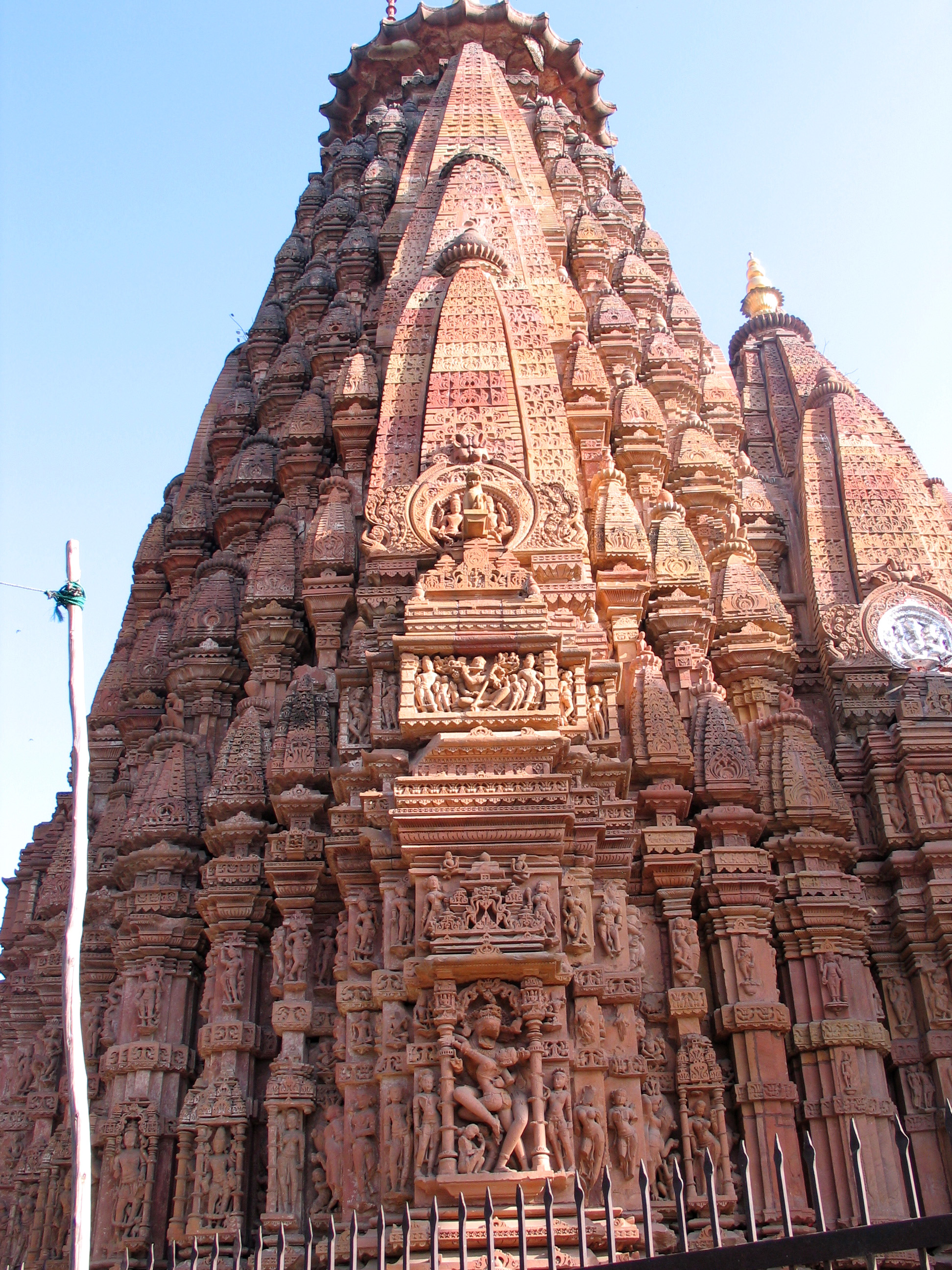 Jhalrapatan: Padam Nath Temple (Surya Temple) Sikhara